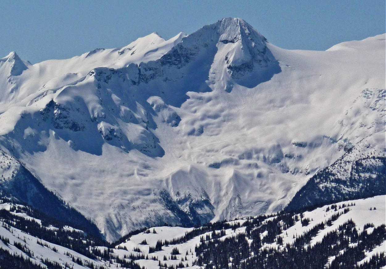 Mount Davidson from Whistler Blackcomb ski area